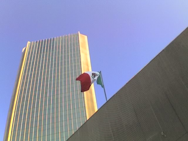 Skyscrapers in Tijuana, and flag of Mexico.